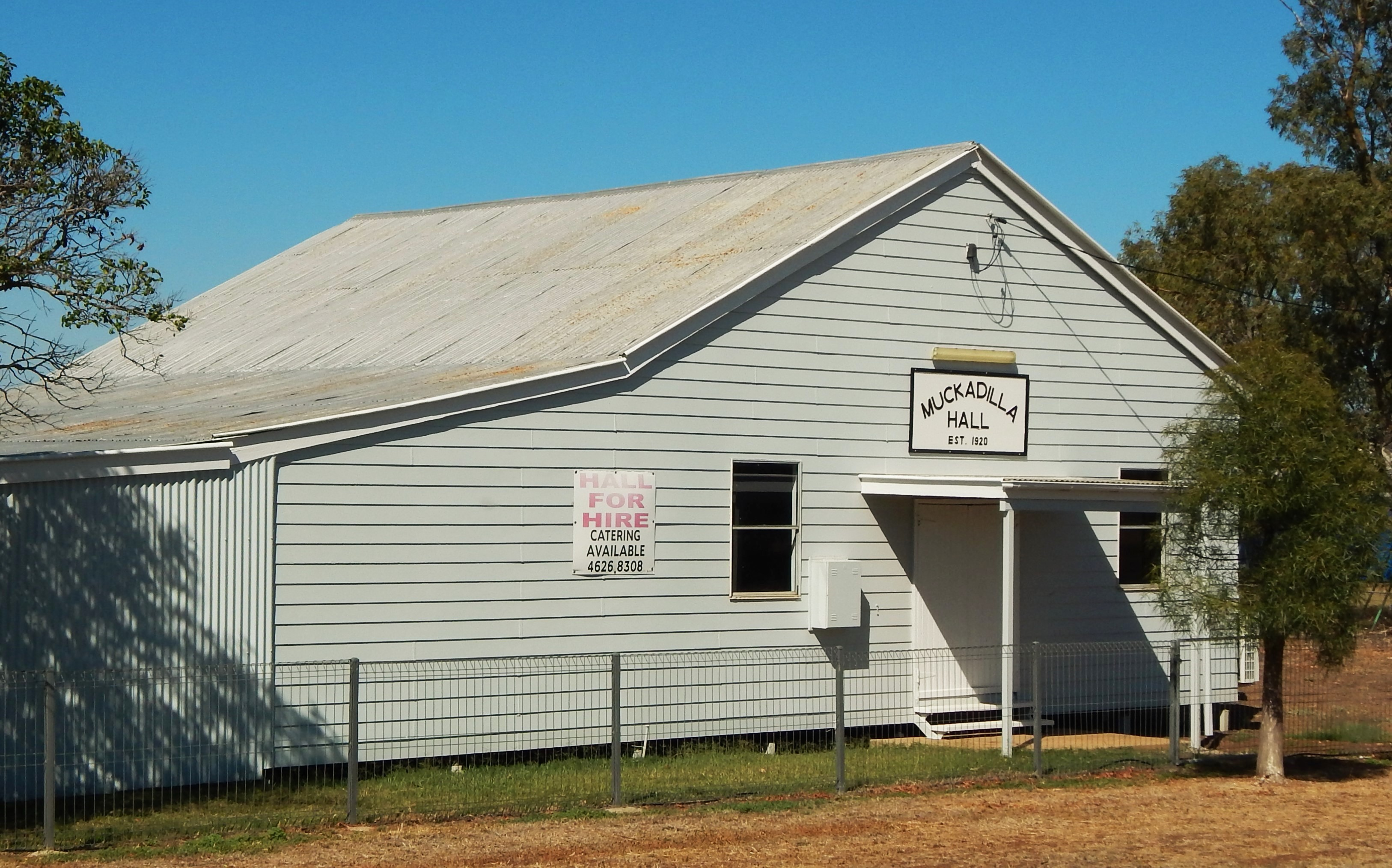 The local community hall in Muckadilla, Queensland